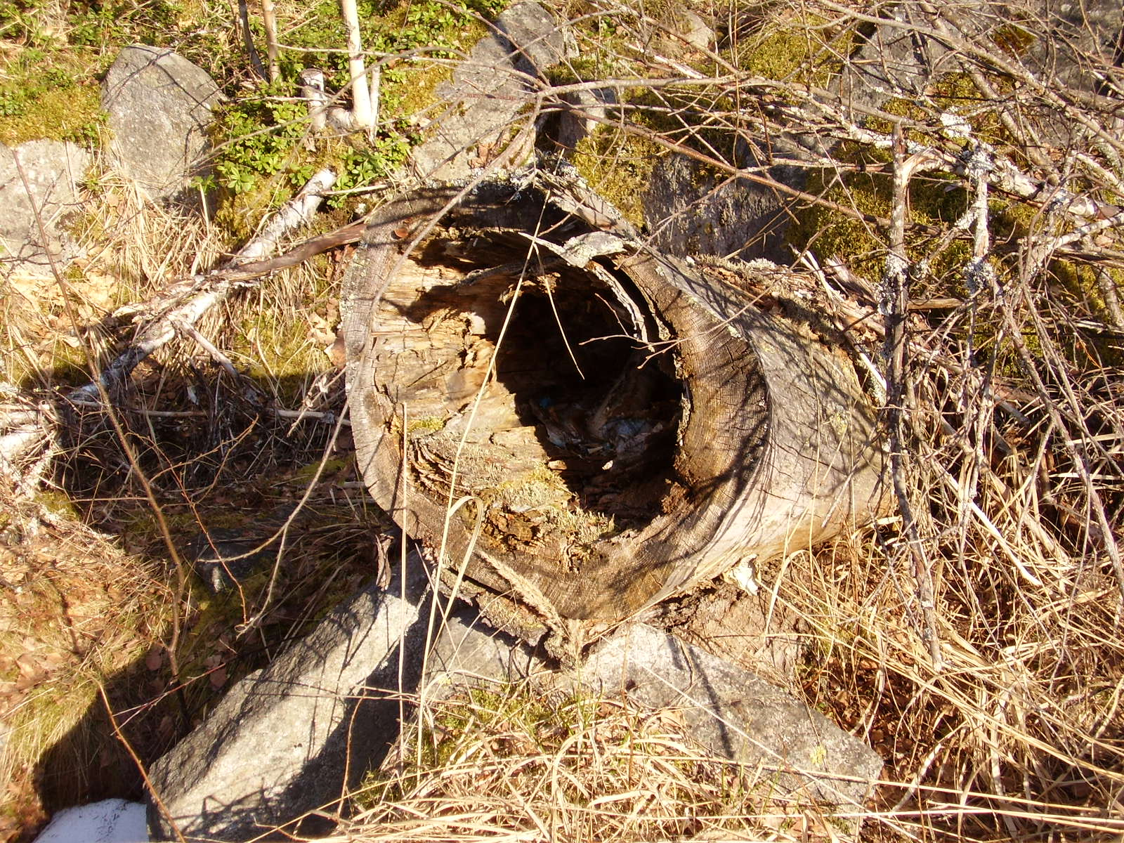 Hollow stump in forest. Problem is old tree.